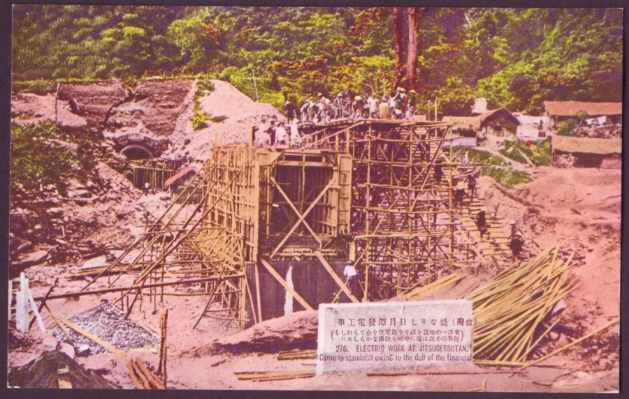 ELECTRIC WORK AT JITSUGETSUTAN